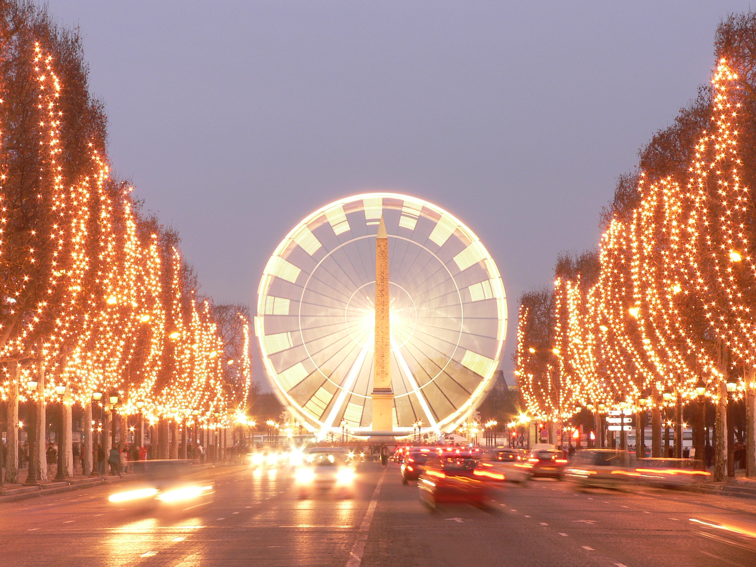 Paris, France:The Place de la Concorde and its Ferris wheel seen from the Champs-Élysées, with end-of-year festive lighting, December 31st, 2005